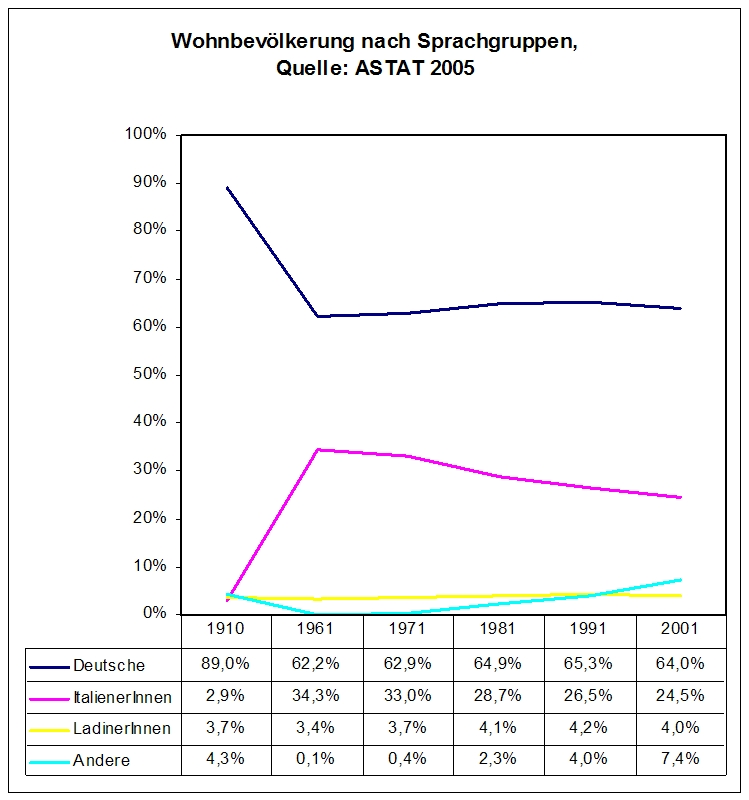 The population of South Tyrol by language group from 1910 until 2001, Source: ASTAT 2005